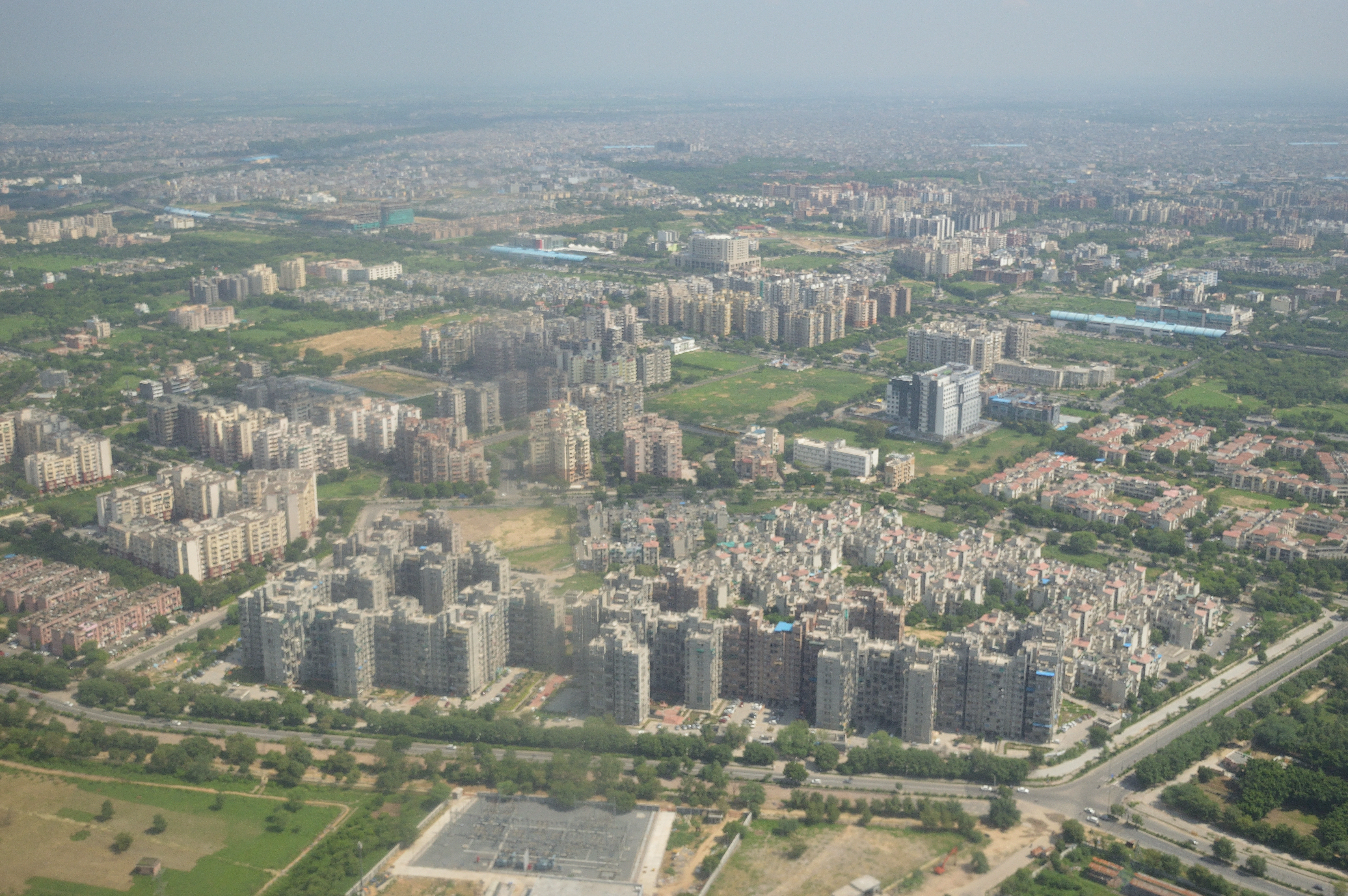 This photograph has been taken in India.